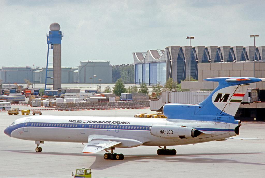 Tupolev Tu-154 HA-LCB of Malev Hungarian Airlines at Frankfurt Airport in 1977